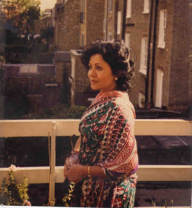 Renowned English Poet, Littérateur from India